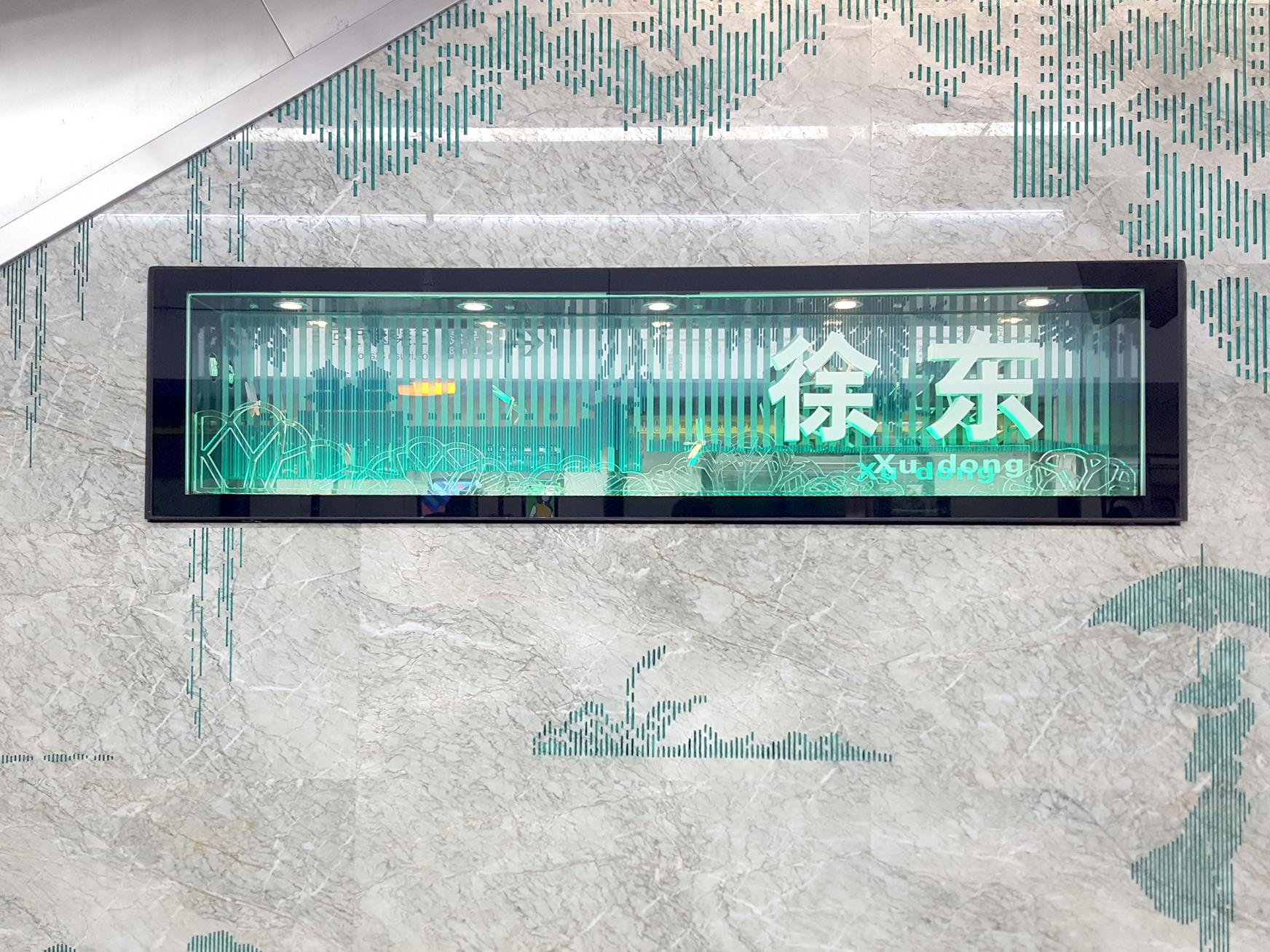 Name Box of Xudong Station, Wuhan Metro